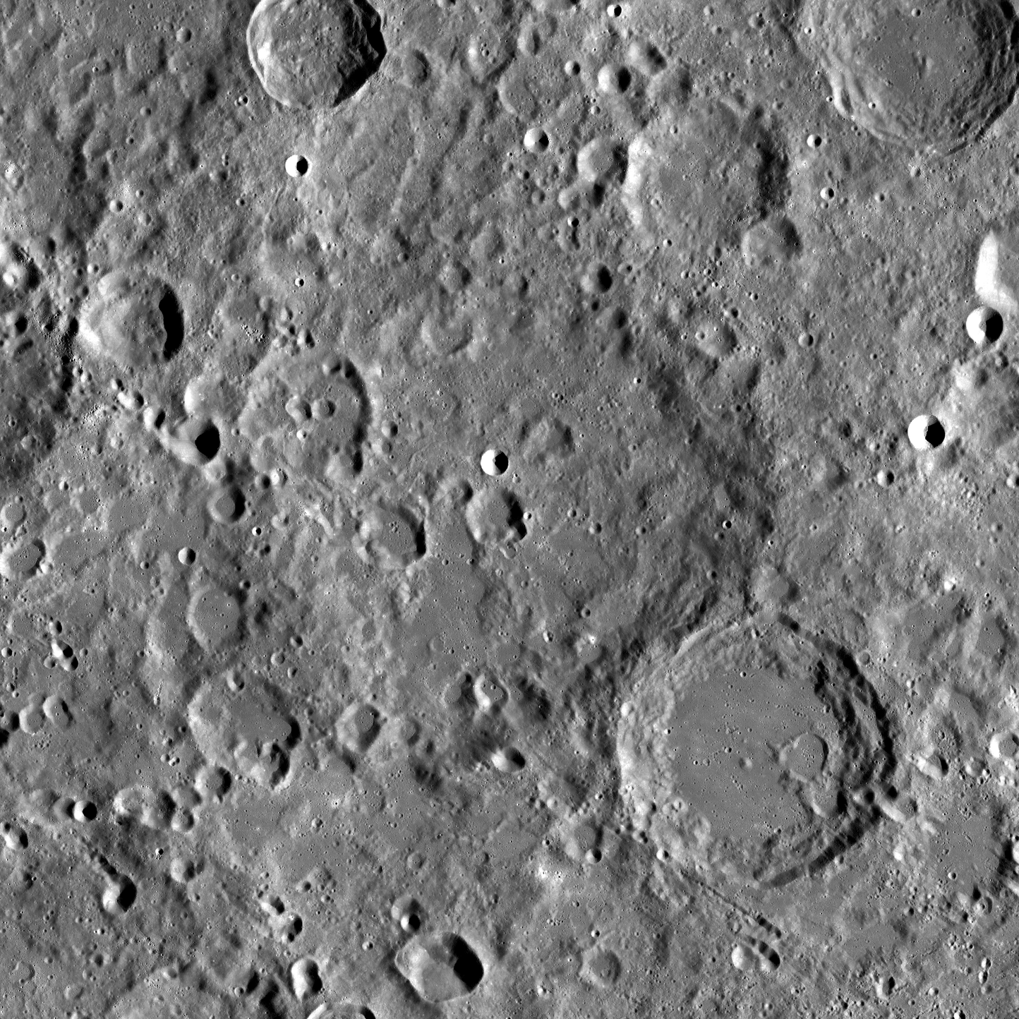 Crater Tsander (Zander) (diam. 160 km) on the Moon, on the far side (heavily eroded crater in the center; look a map). Crater Kibal'chich (92 km) is seen in lower right. Coordinates of center of Tsander are 5.4°N, 149.7°W. Mosaic of photos by Lunar Reconnaissance Orbiter, made with Wide Angle Camera. Width of the photo is 340 km, north is up.